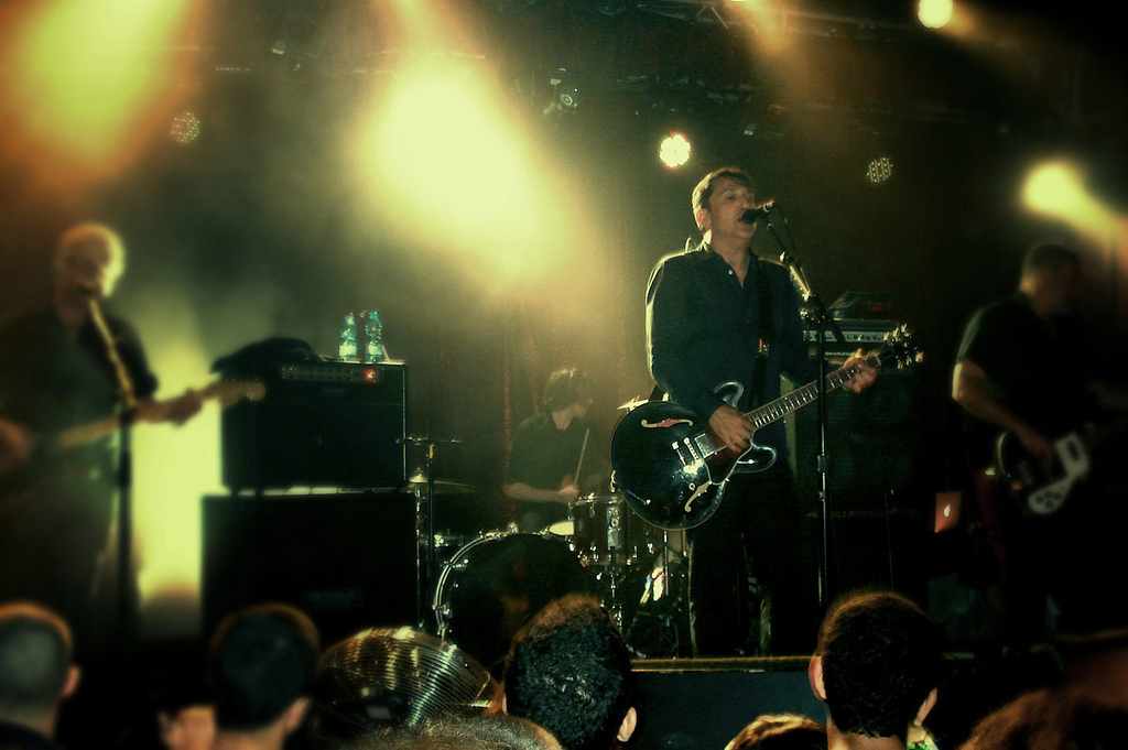 The Afghan Whigs performing in Tel Aviv on June 15, 2012